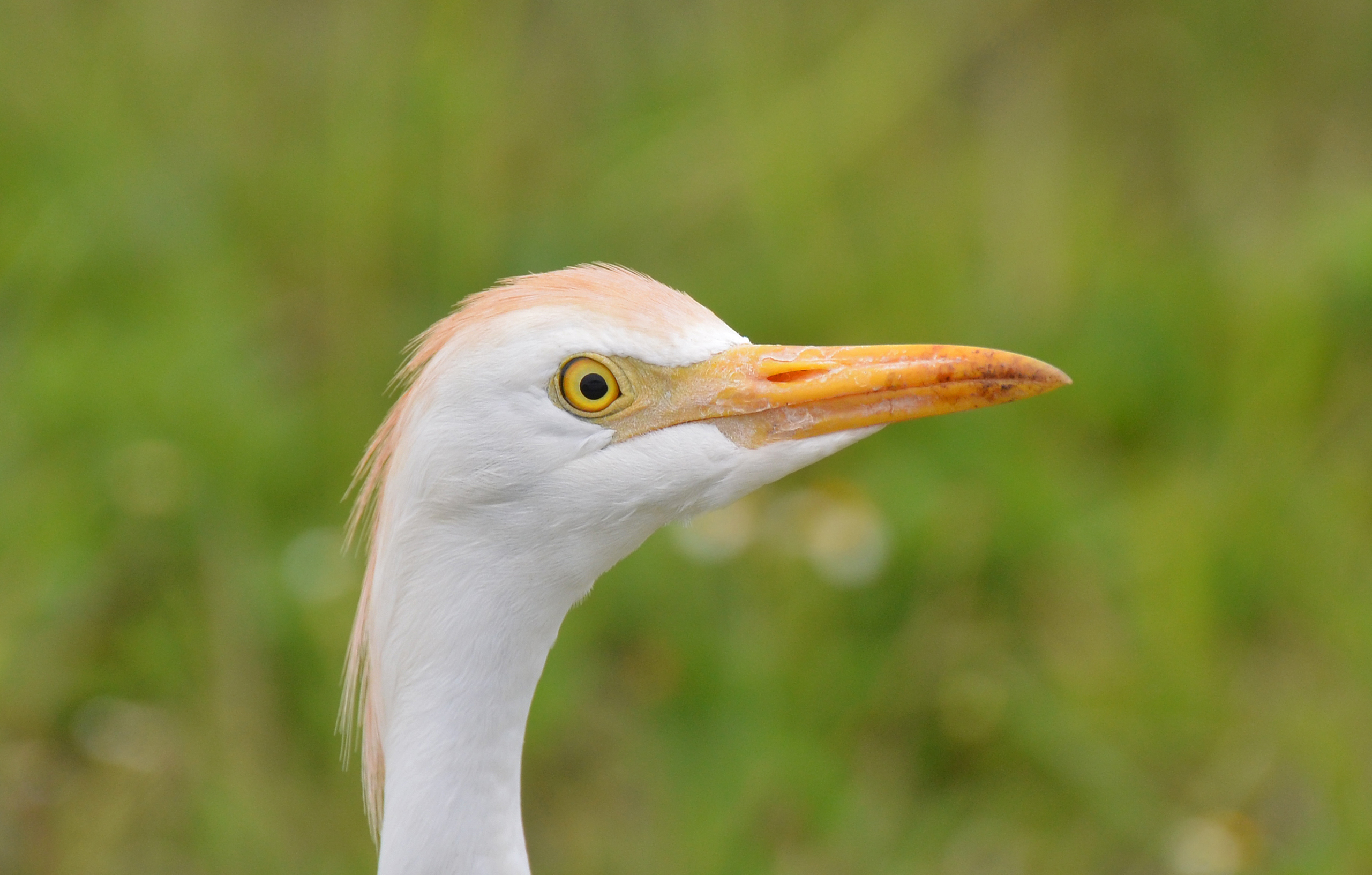 Cattle egret